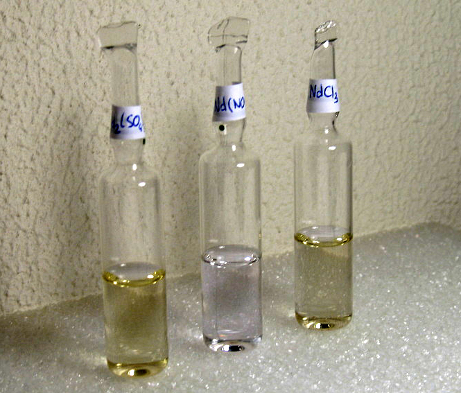 Neodymium sulfate, nitrate, and chloride solutions in energy-saving fluorescent light